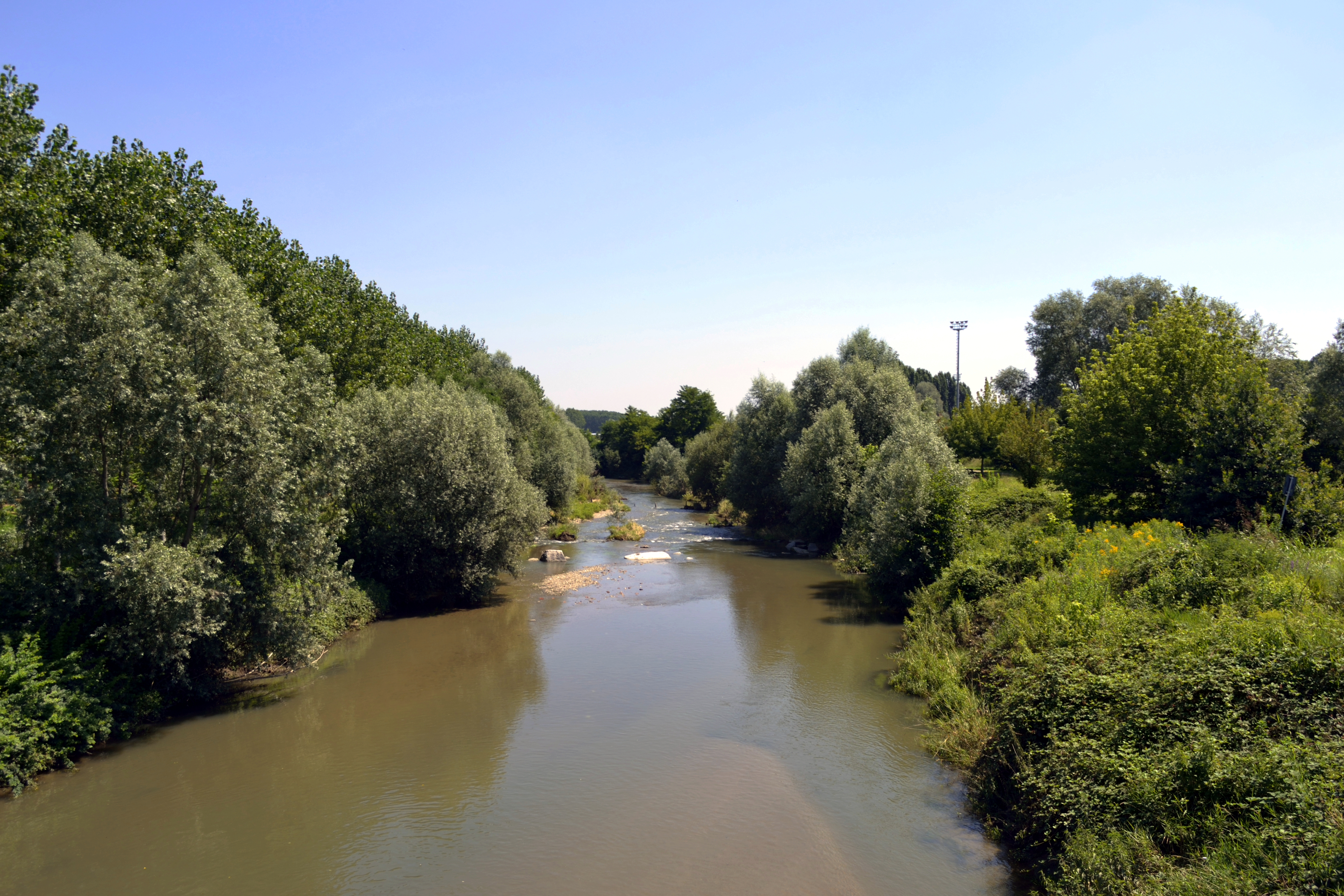 Photo of the river Chisola, taken on the bridge of Via Stupinigi.